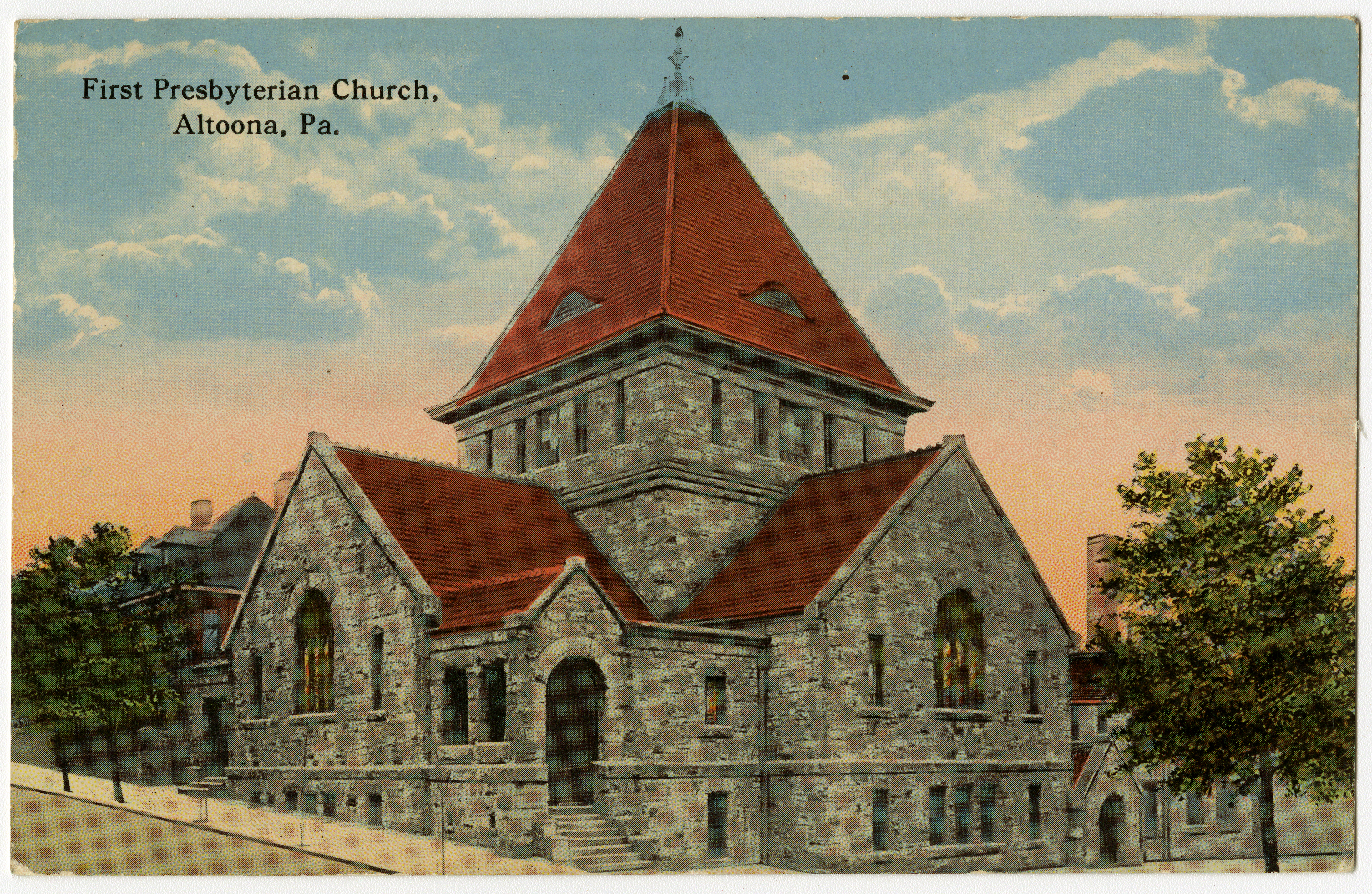 First Presbyterian Church in Altoona, Pennsylvania from a pre-1923 postcard From RG 428, Postcard Collection, Presbyterian Historical Society, Philadelphia, Pennsylvania.